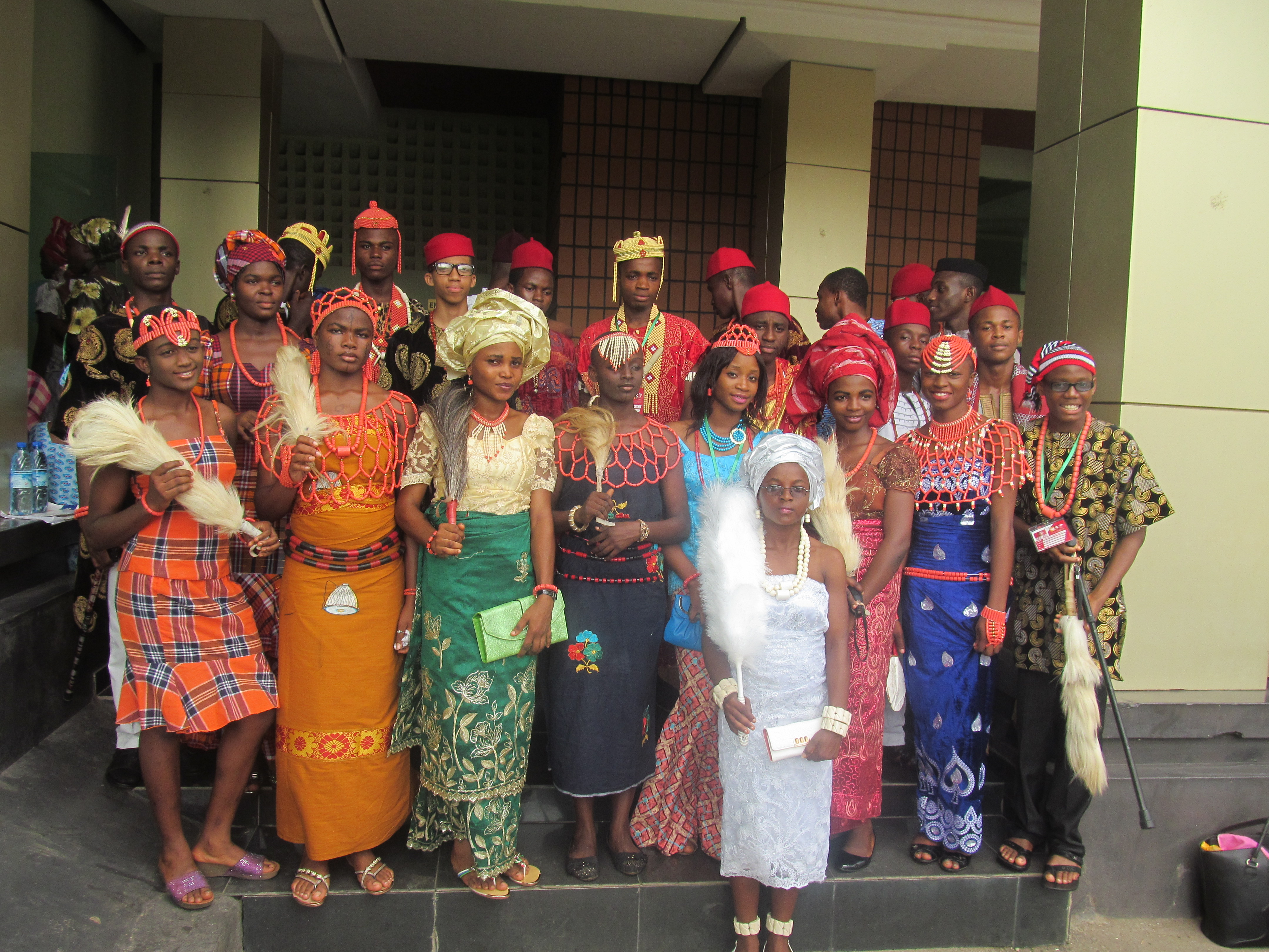 Young Africa's Showing in Grand Style This is an image of Cultural Fashion or Adornment from Nigeria